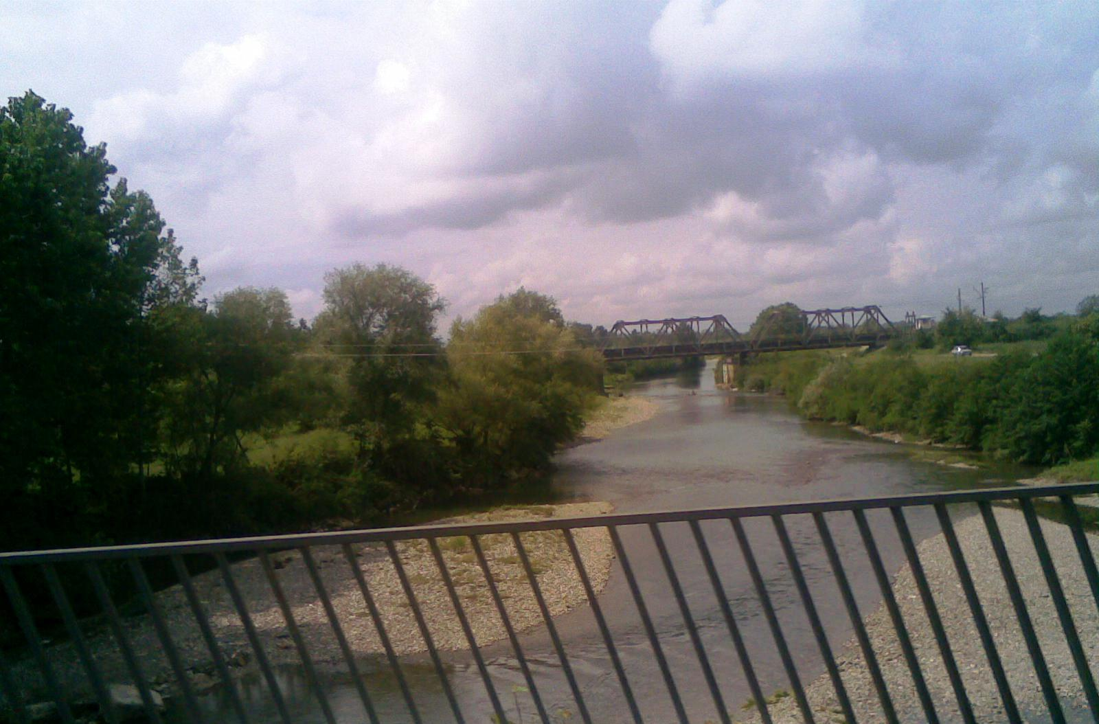 Abasha River, Georgia